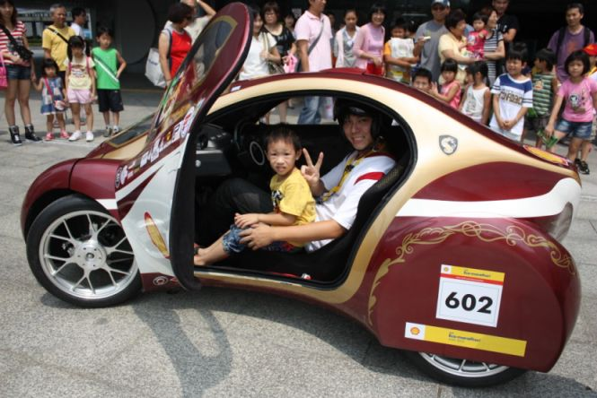 Children are experienced Jedi Knight (a fuel cell urban concept car made by SOLOMON Fuel Cell Vehicle Team)